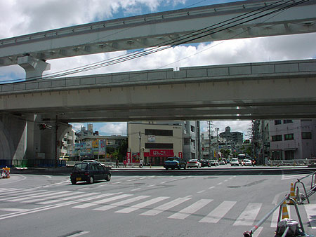 Asato Intersection for the east.high elevated bridge eq Monorail, low eq landbridge(car only).